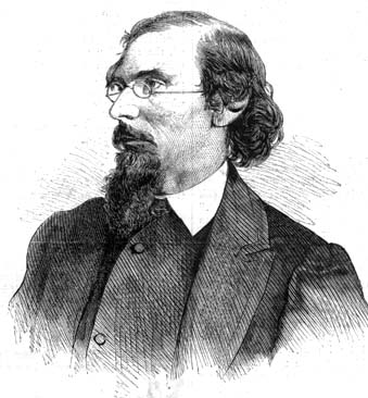 George Inness, scanned from an engraving in the 13 July, 1867 edition of Harper's Weekly.